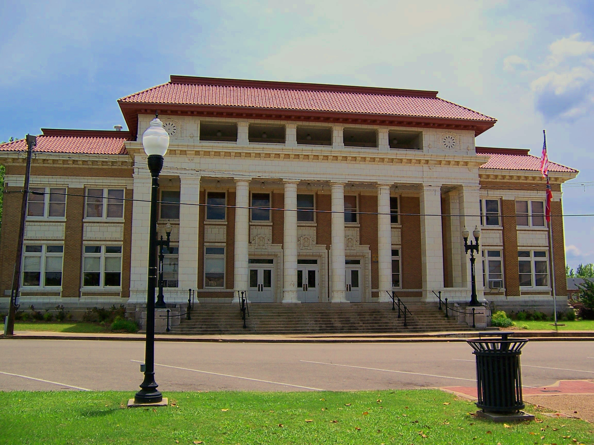 The Pontotoc County courthouse in Pontotoc, Mississippi. Photo by Michael Jones. This photo may be used freely but please credit the author.